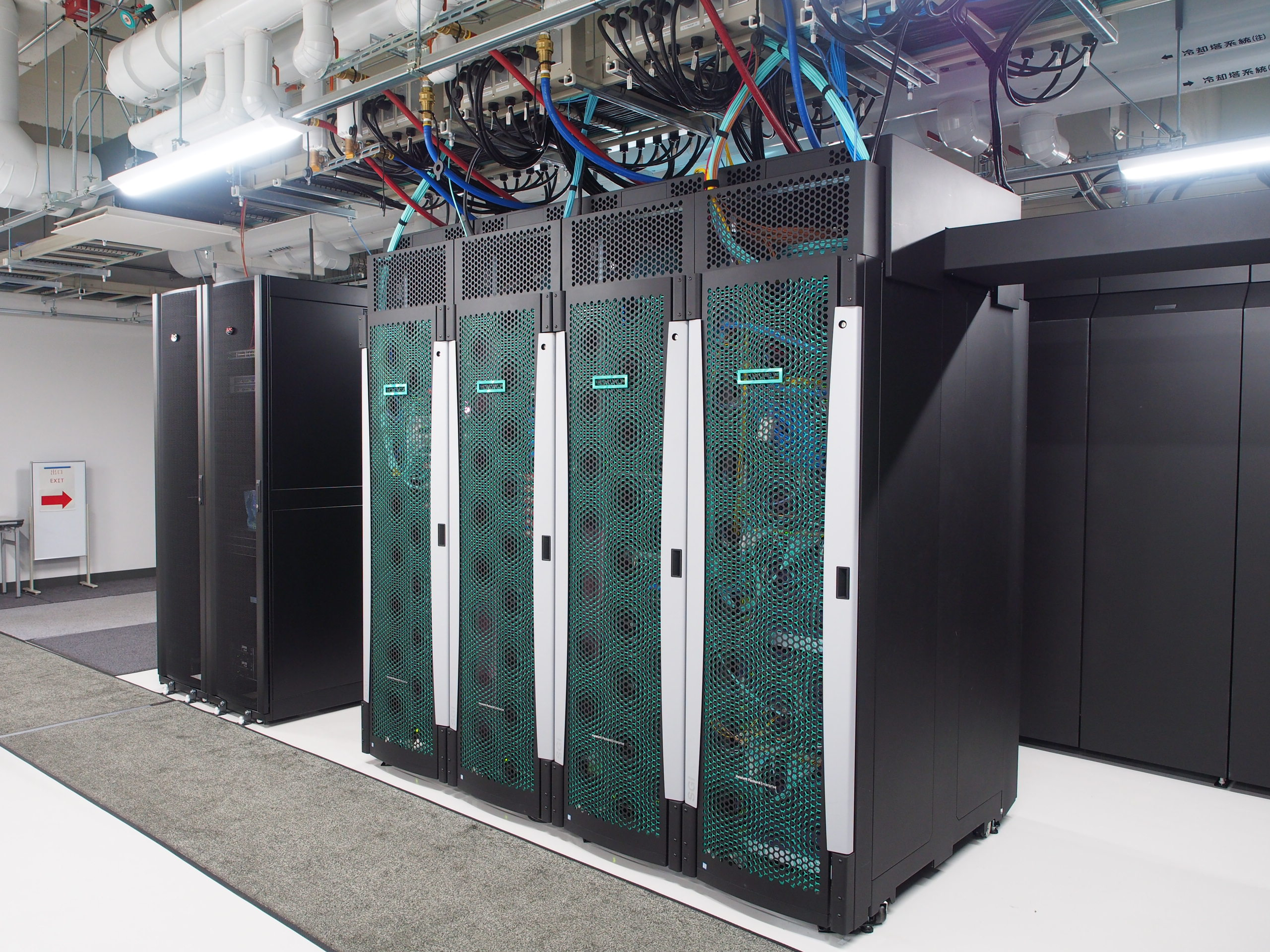 Racks (green mesh door) of interconnect switches of TSUBAME 3.0 supercomputer at Ookayama campus of the Tokyo Institute of Technology in Meguro-ku, Tokyo, Japan. Photographed on the open house for Koudaisai Tokyo Tech Festival.